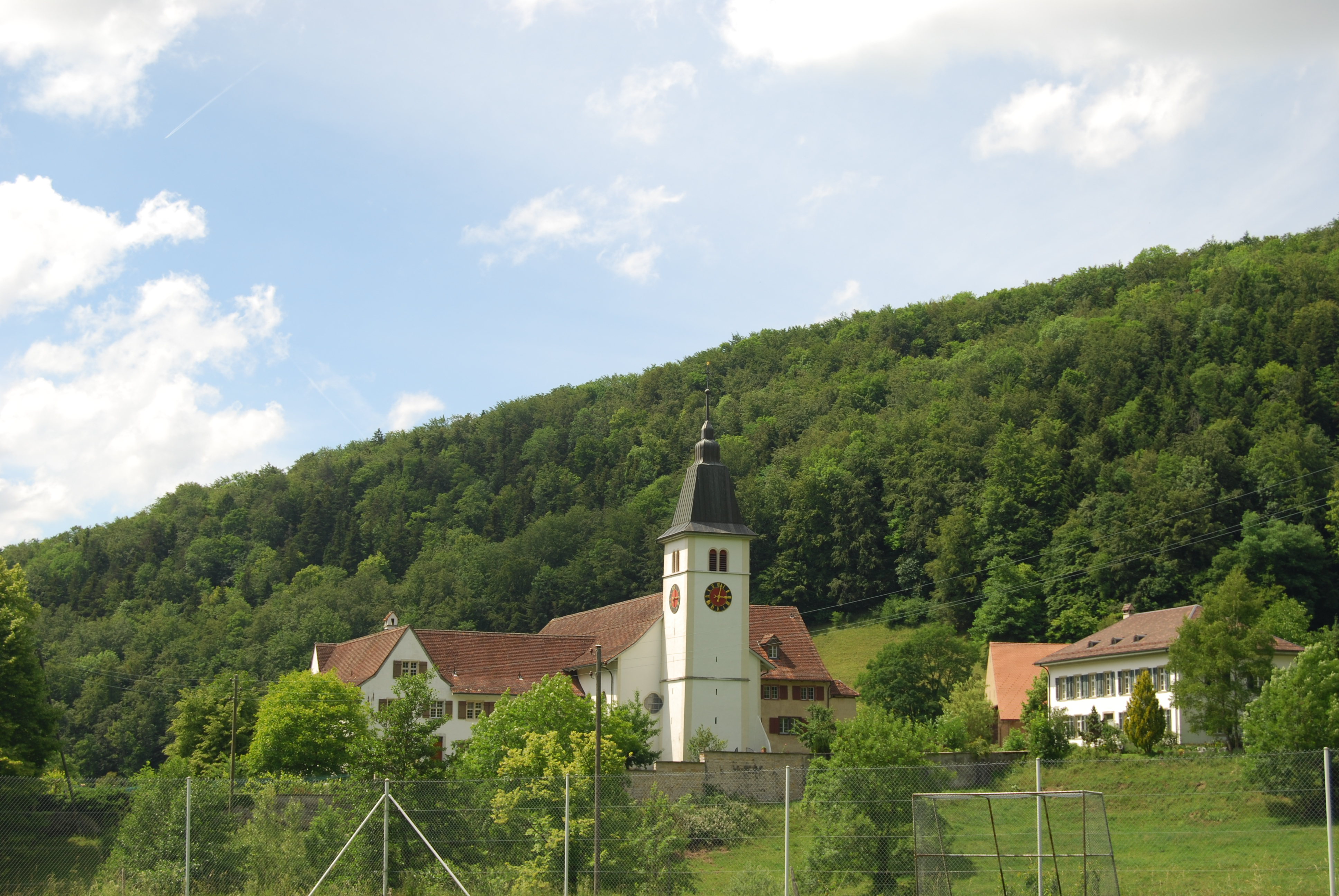 Abbey Beinwil, canton of Solothurn, Switzerland